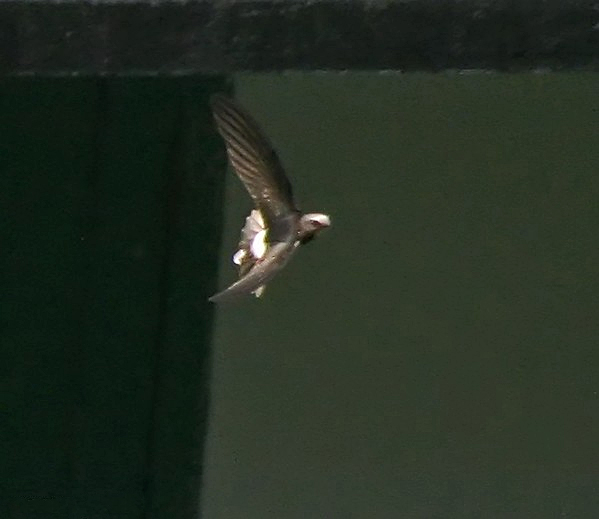 House swift Apus affinis in Kolkata, West Bengal, India.